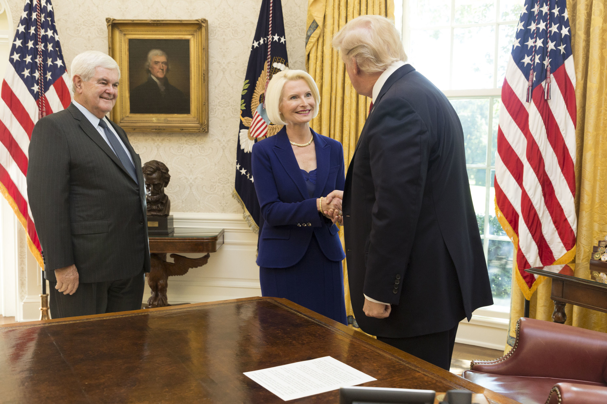 President Donald J. Trump greets Newt and Callista Gingrich in the Oval Office at the White House, Tuesday, October 24, 2017, prior to the swearing in ceremony of Callista Gingrich as U.S. Ambassador to the Holy See, in Washington, D.C. Vice President Mike Pence attends. (Official White House Photo by Shealah Craighead)